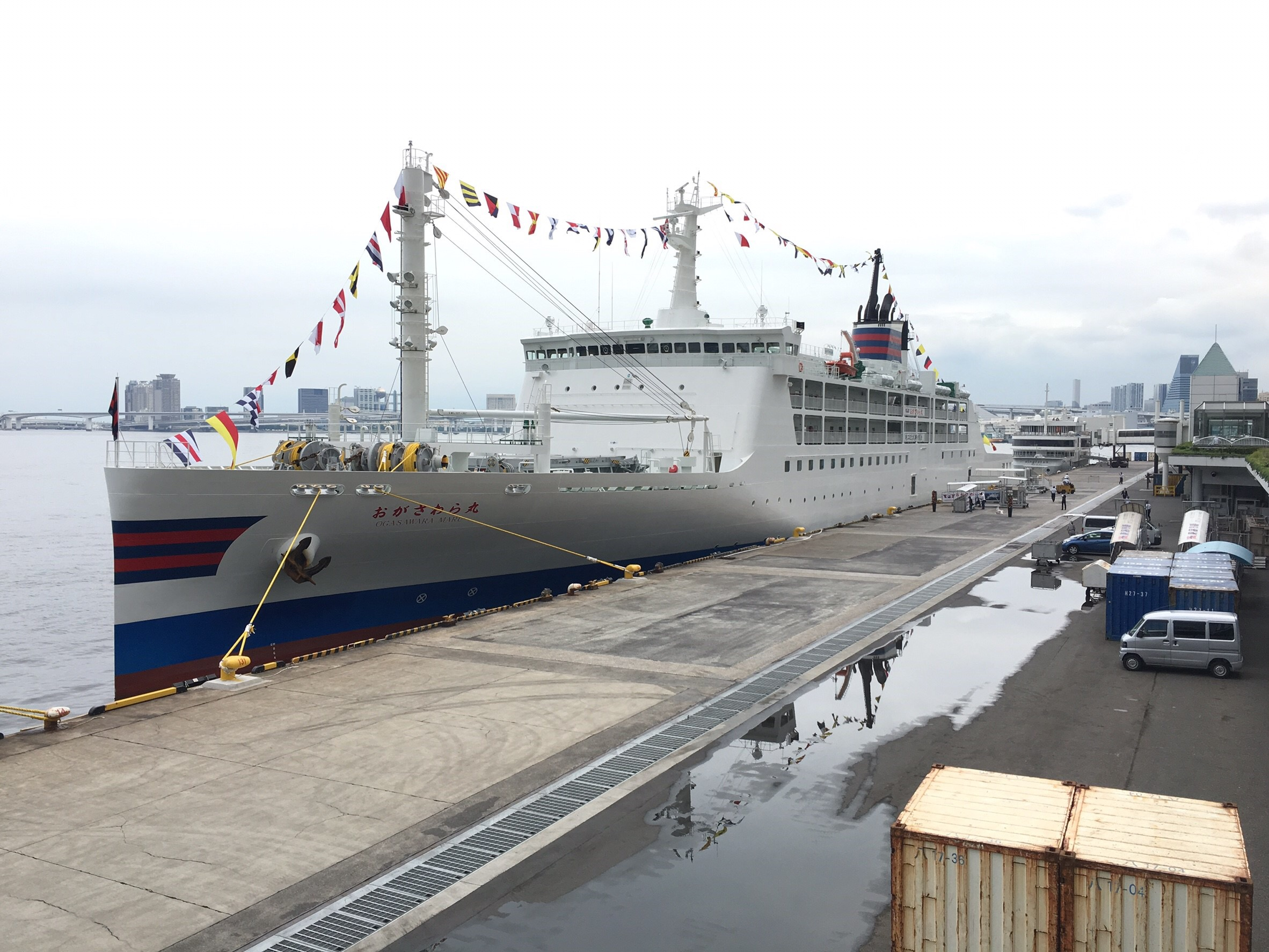 Ogasawara Maru at the Takeshiba Pier